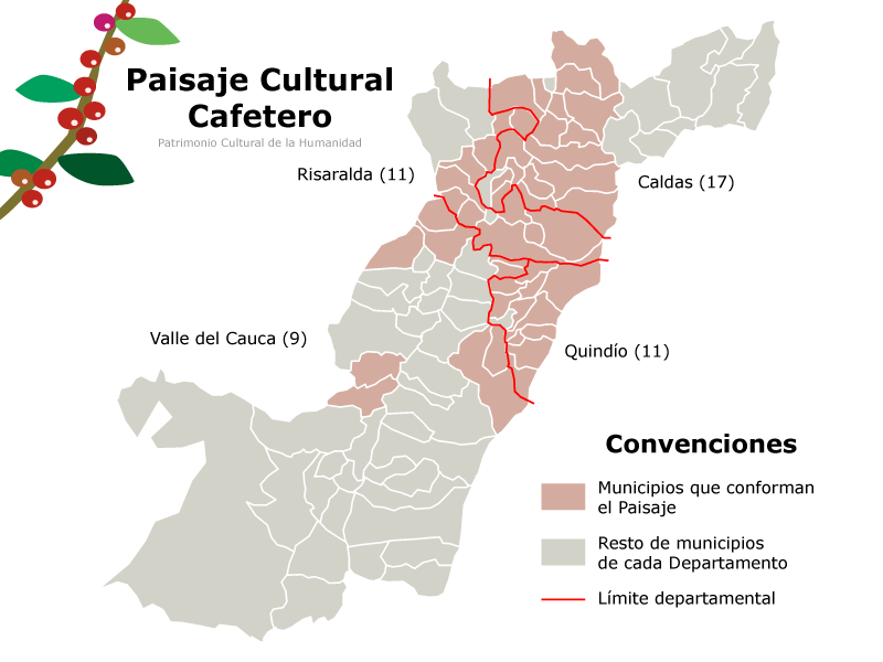 Infographics about the colombian municipalties declared World Heritage Centre, labeled as 'Coffee Cultural Landscape of Colombia'